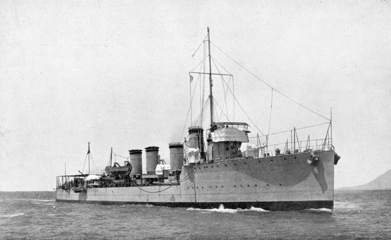 Destroyer Alsedo, the first Alsedo Class (1922)